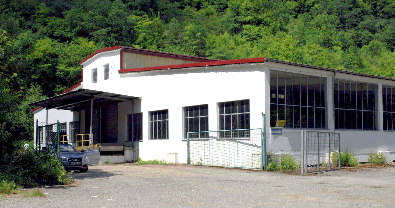 Former warehouse for the underground armament factory "Goldfisch" near Obrigheim